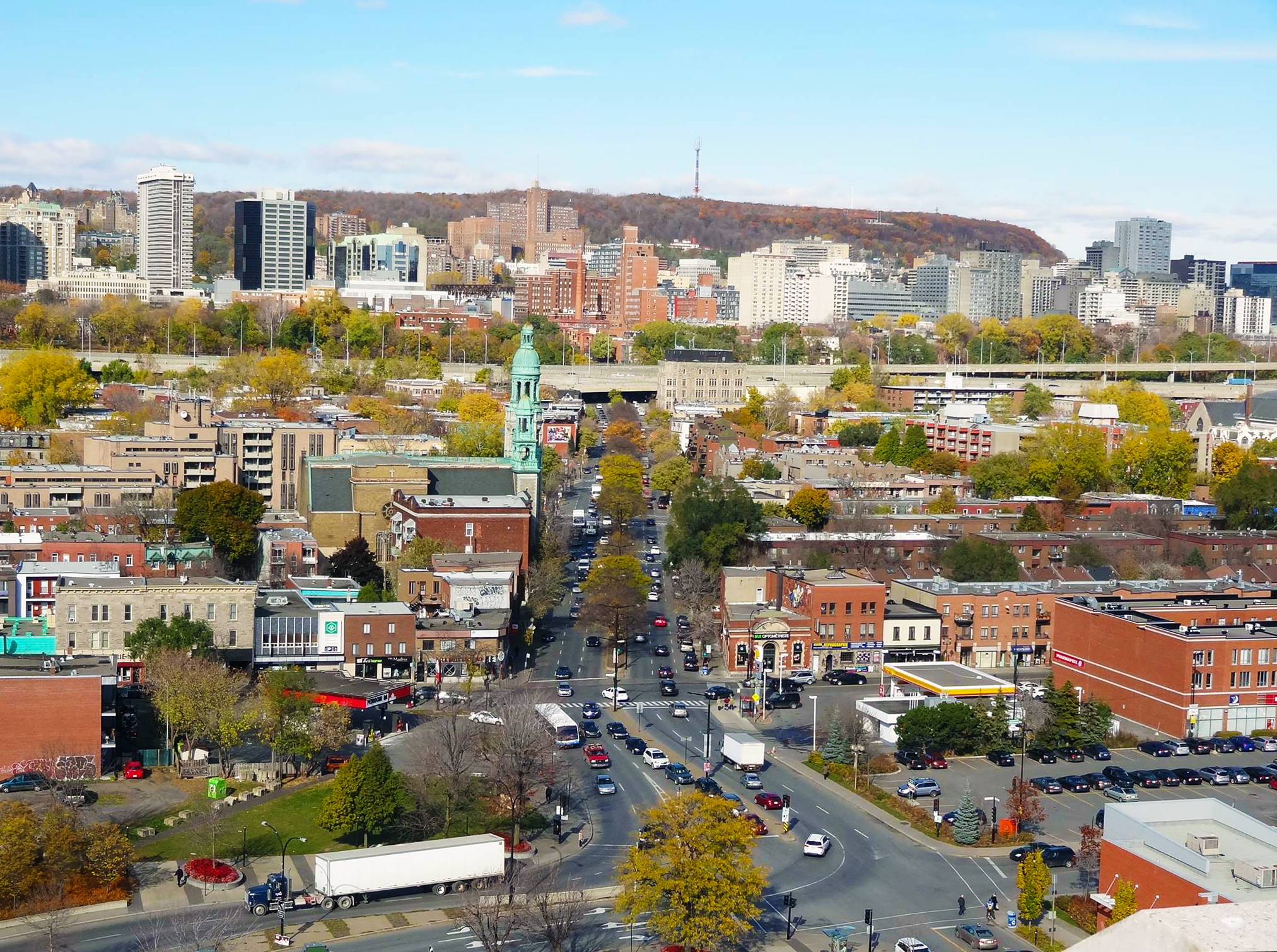 View of avenue Atwater, borough of Le Sud-Ouest, Montreal, taken from the top of the Atwater Market tower, October 31, 2014.